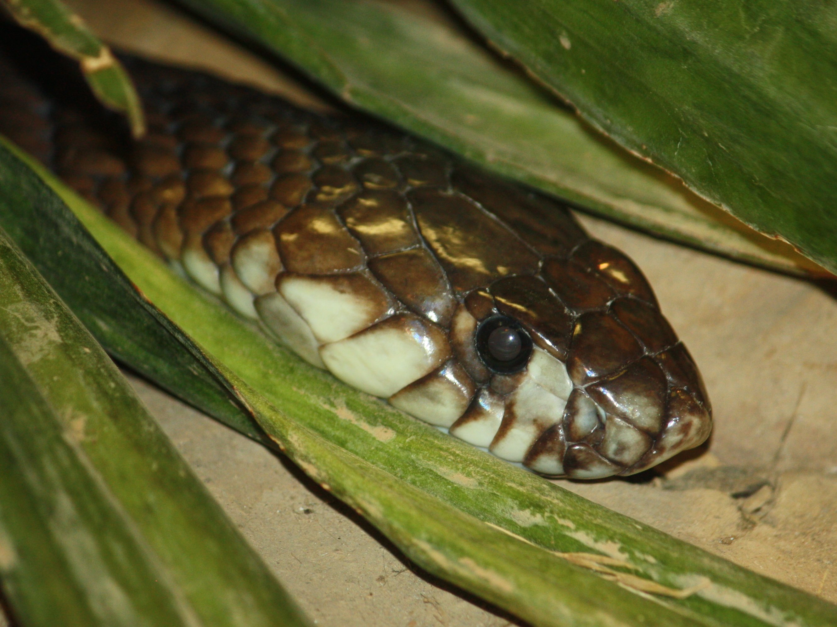 Egyptian Cobra Naja haje at the Louisville Zoo